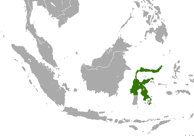 Manado Fruit Bat (Rousettus bidens) range